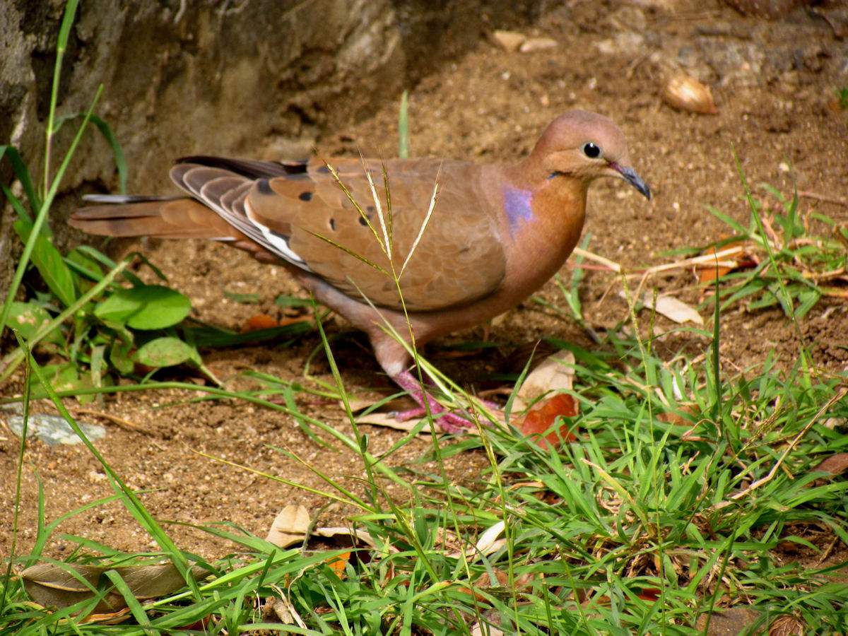 Zenaida Dove (Zenaida aurita), St. Thomas Island, US Virgin Islands